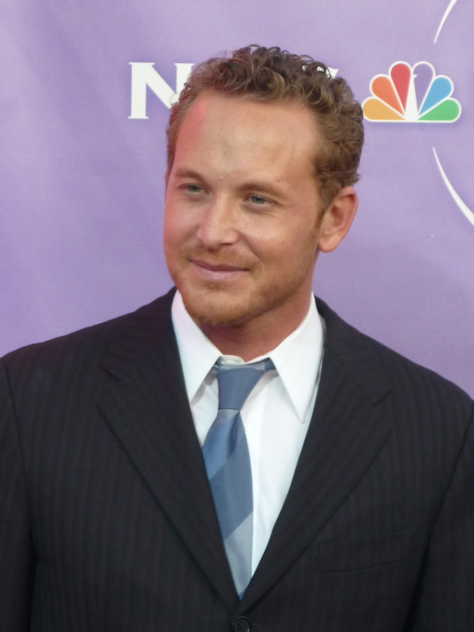 Cole Hauser at the TCA 2010